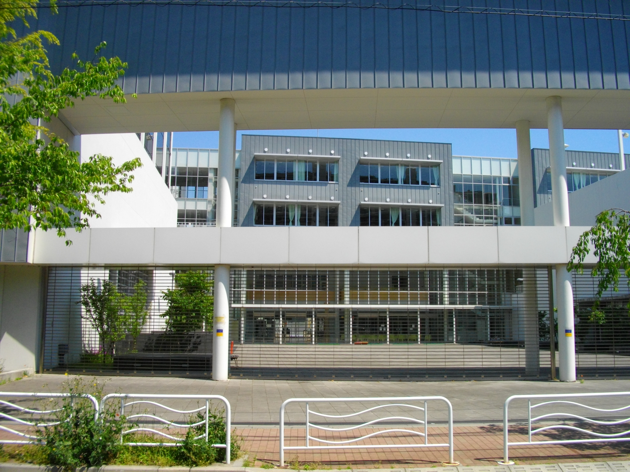 Oedo High School